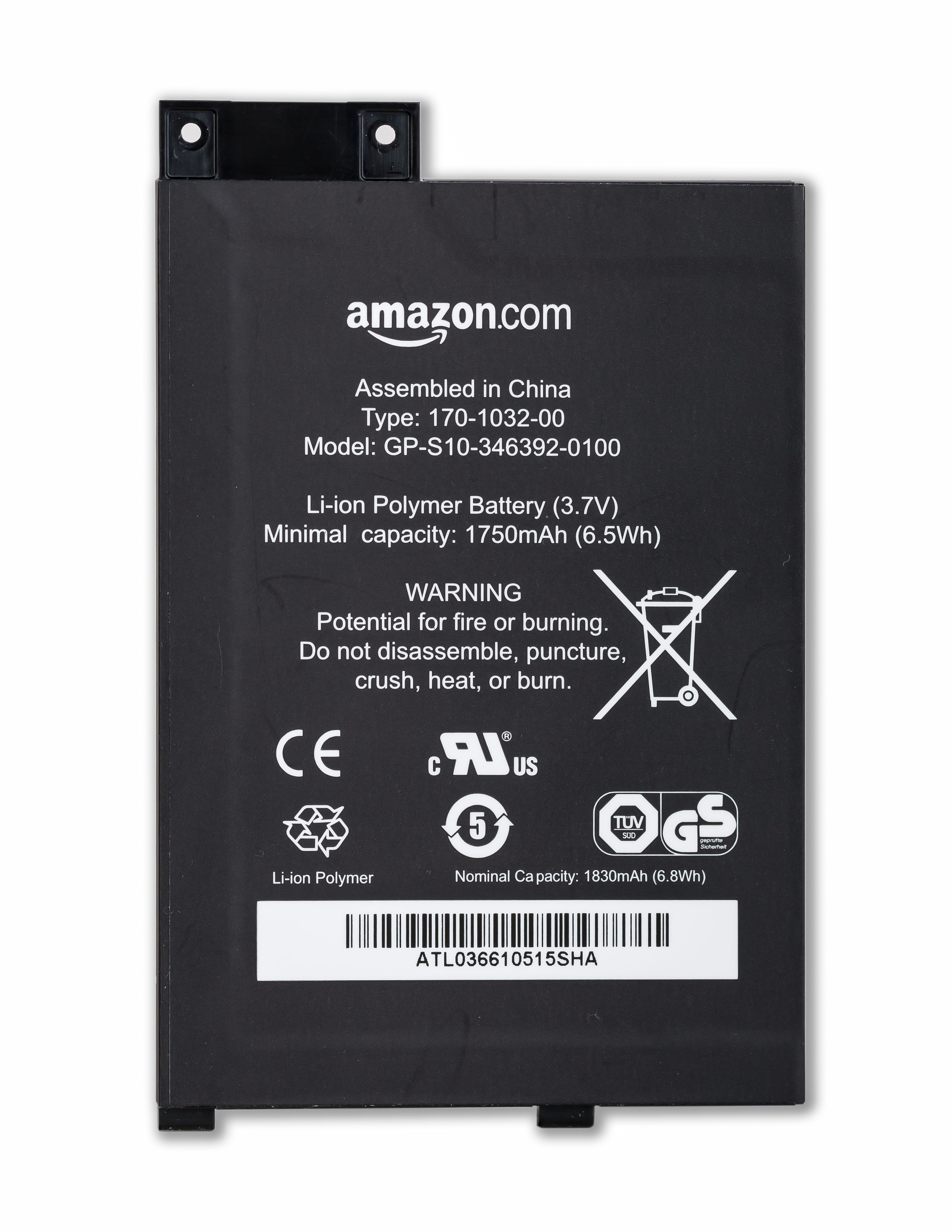 Lithium-Polymer battery of an AmazonKindle